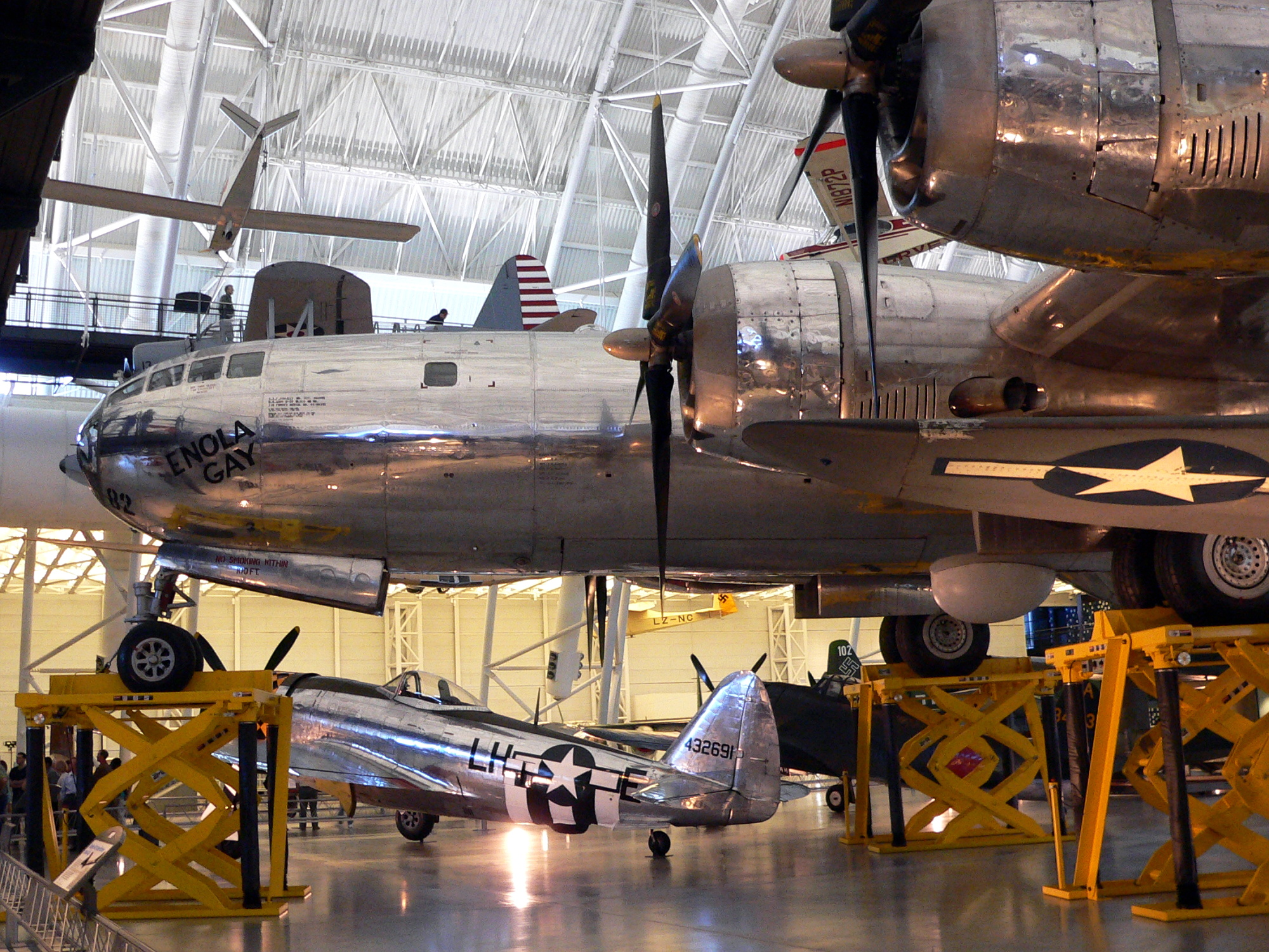 The B-29 Superfortress bomber Enola Gay, on display at the Udvar-Hazy annex of the National Air and Space Museum.Photo taken with a Panasonic Lumix DMC-FZ20 in Fairfax County, VA, USA.